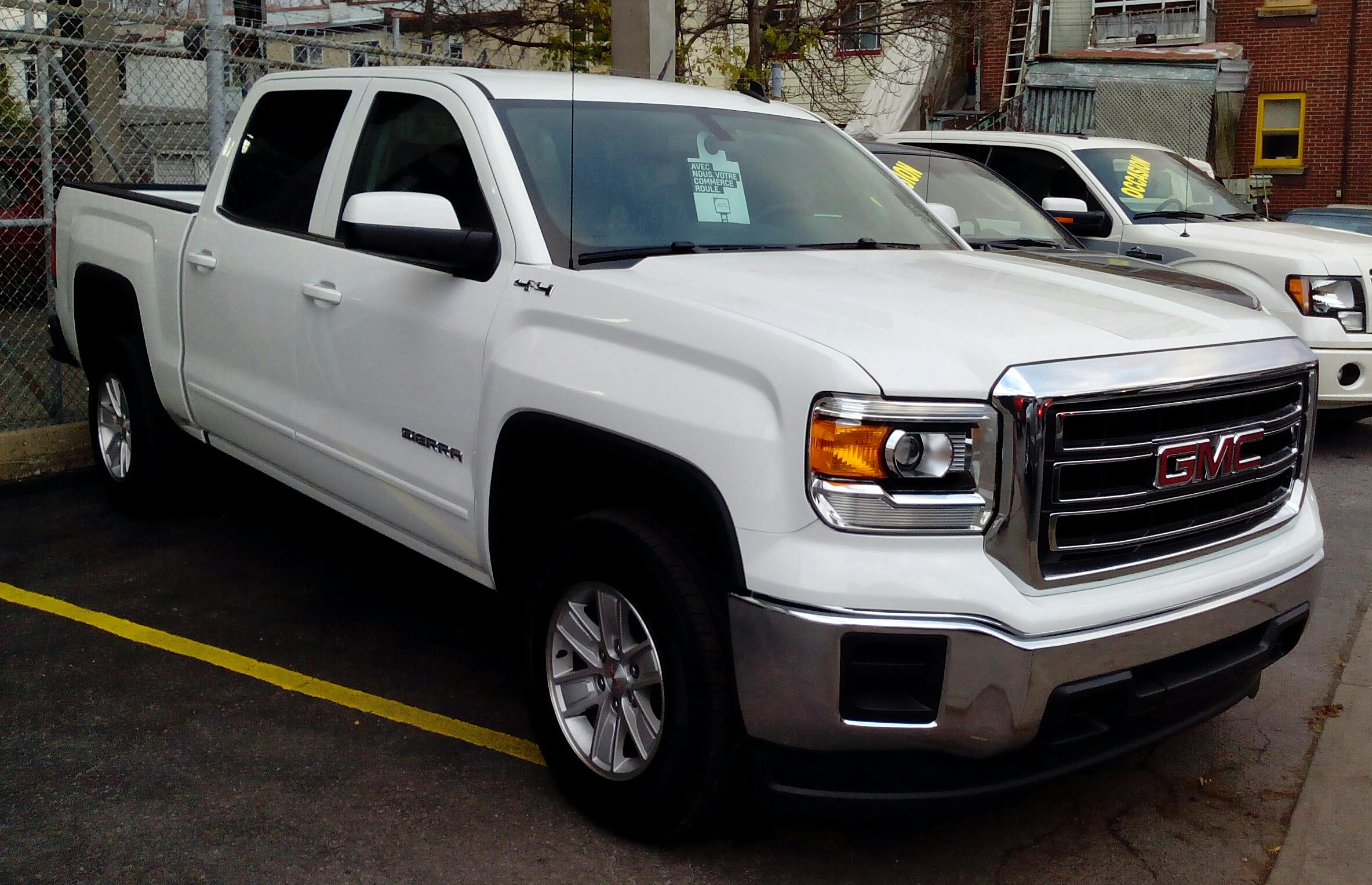 2014-present GMC Sierra hotgraphed in Montreal, Quebec, Canada.